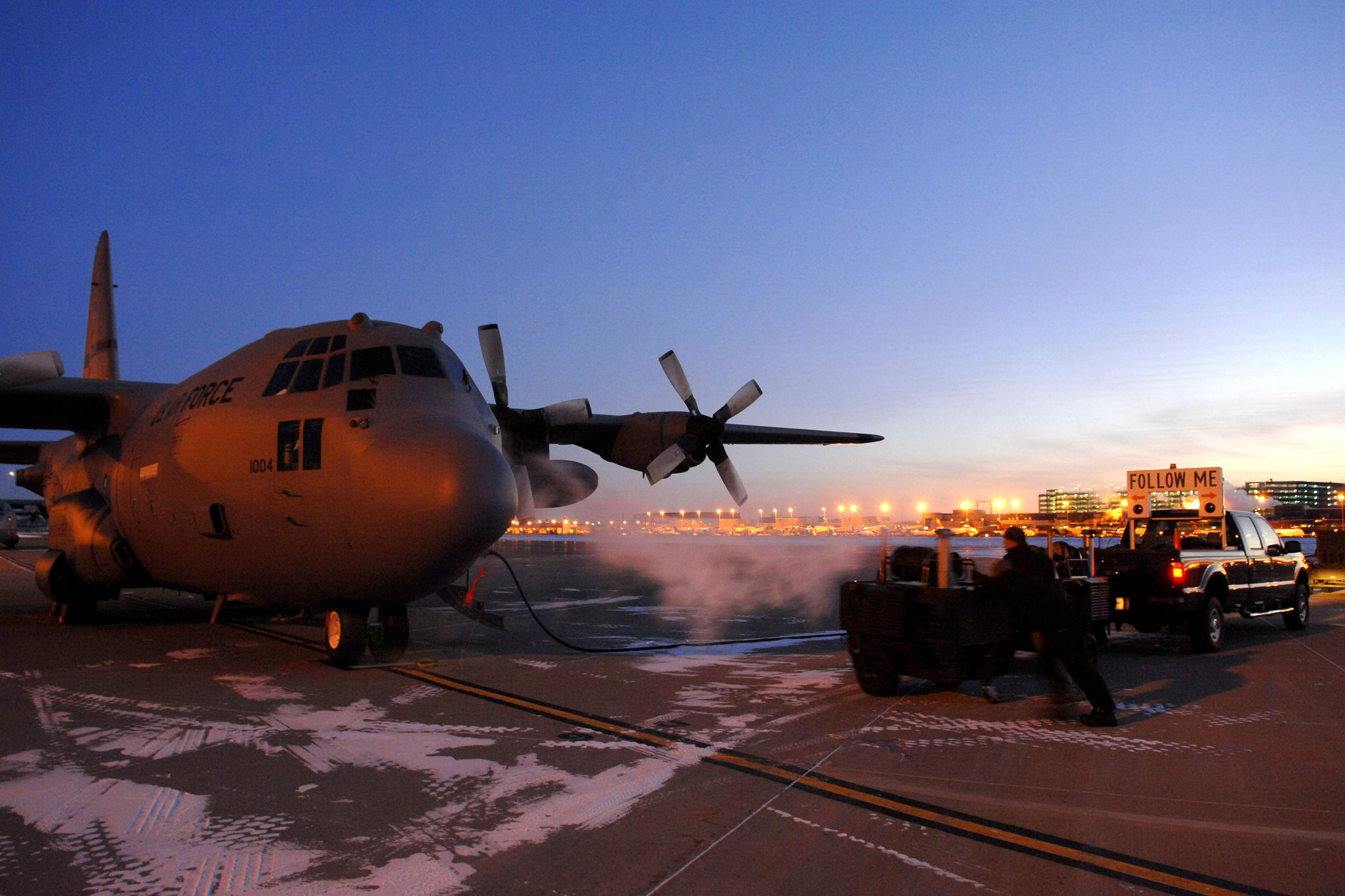 In the orange light of the setting sun on Dec. 15, 2009, a 133rd Airlift Wing, Minnesota Air National Guard C-130 H model cargo aircraft prepares for a cold weather training flight. The Lockheed C-130 Hercules is a four-engine turboprop military transport aircraft built by Lockheed. Capable of takeoffs and landings from unprepared runways. The C-130H model has updated Allison T56-A-15 turboprops, a redesigned outer wing, updated avionics and other minor improvements. U.S. Air Force photo by Tech. Sgt. Erik Gudmundson.